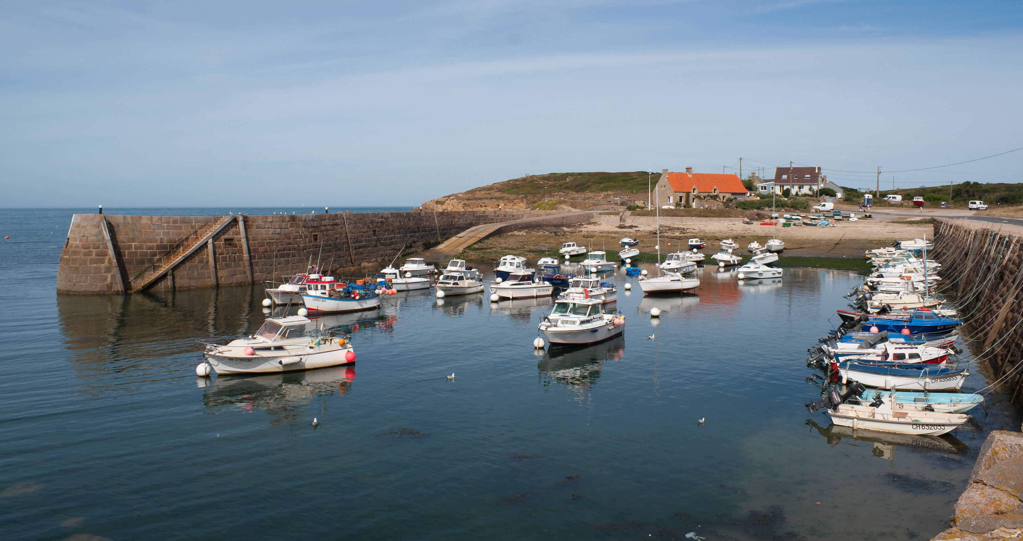 Port Lévi, close to Cap Lévi, in Fermanville.